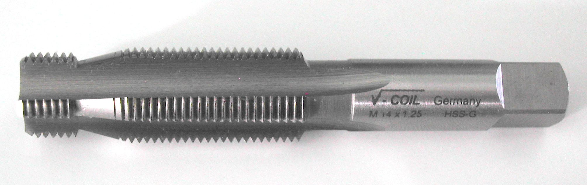 Tap pilot nose M16x1.25 M14x1.25 for helicoil